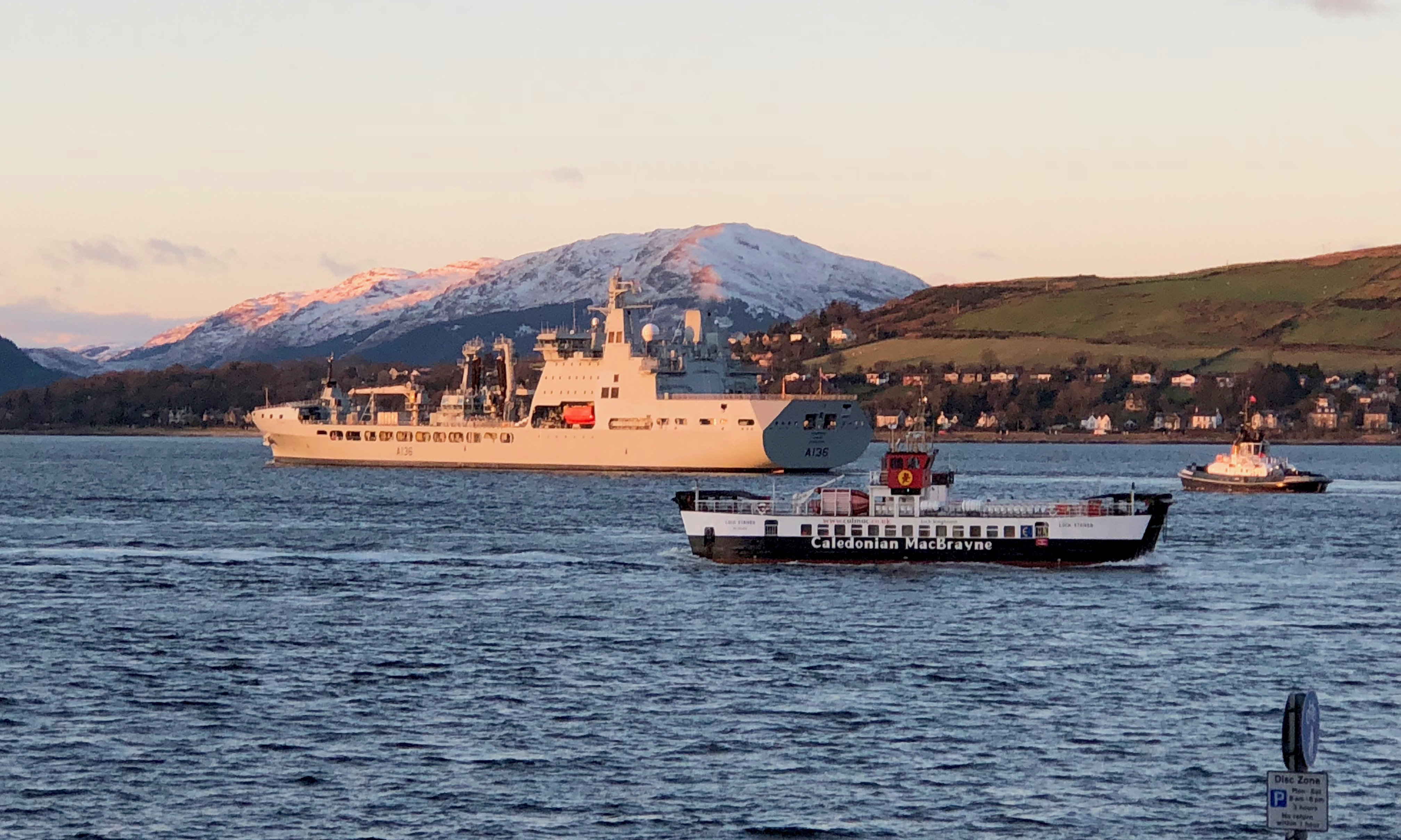 Firth of Clyde scene: replenishment tanker RFA Tidespring heading west, in the foreground Caledonian MacBrayne ferry MV Loch Striven heads upriver past Gourock pierhead.